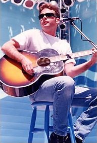 Jamie playing at Six Flags.